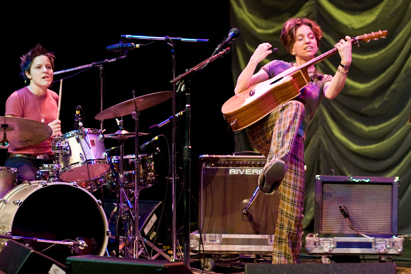 Ani DiFranco at the Inter-Media Art Center in Huntington, NY